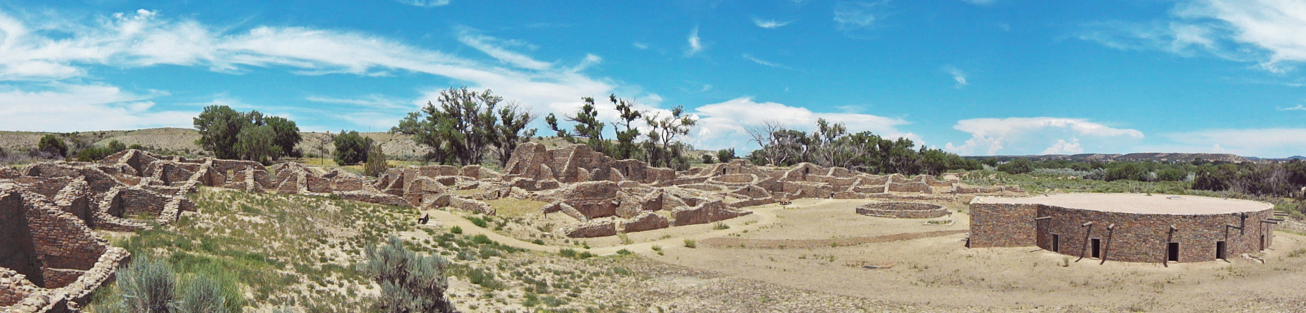 The ruins at Aztec West, in Aztec Ruins National Monument, New Mexico